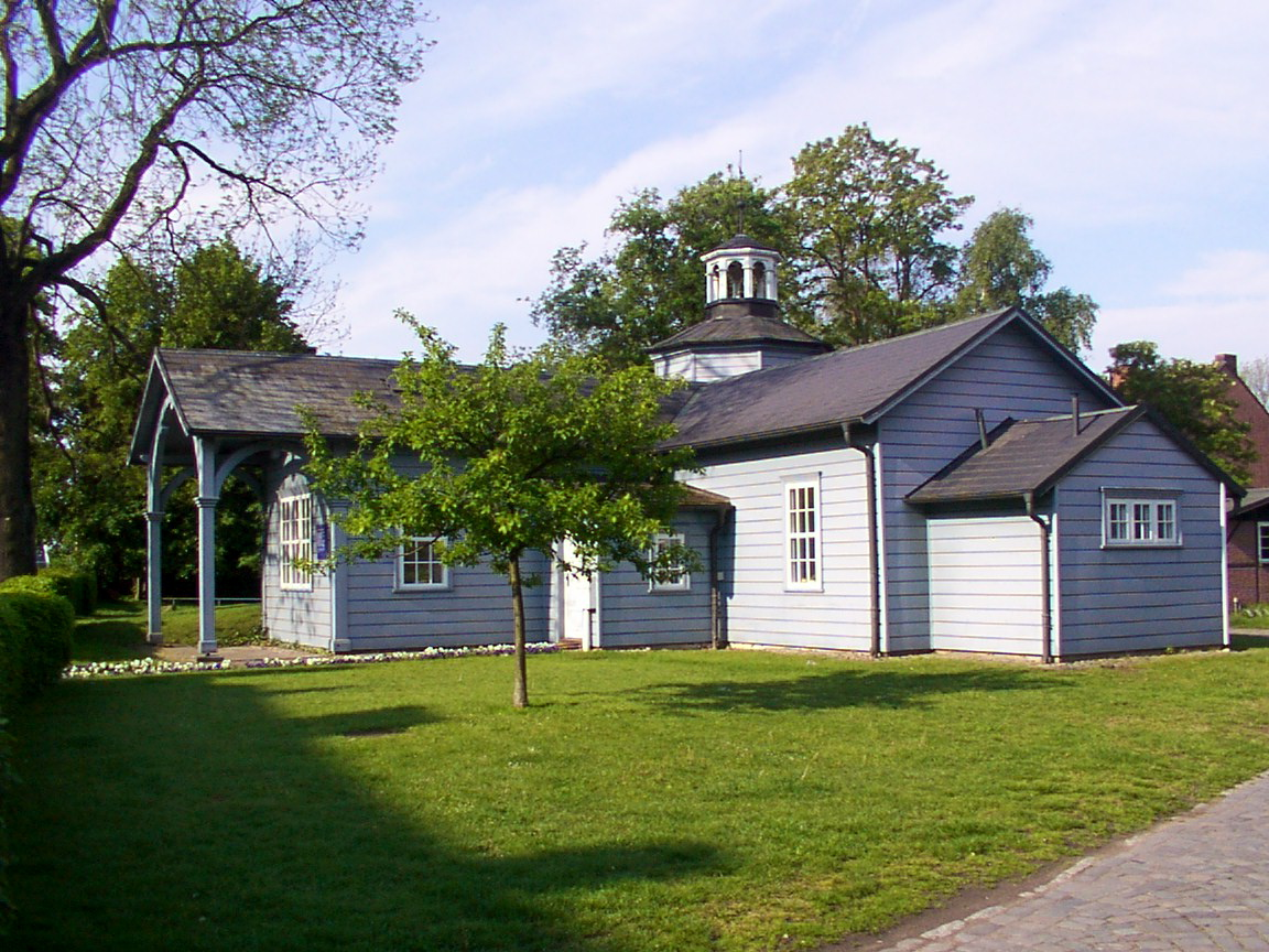 Historic station building of the first Northern German Railway between Hamburg and Bergedorf at "Neuer Weg" in Bergedorf, Germany. Build in 1842. Oldest remaining station building in Germany.